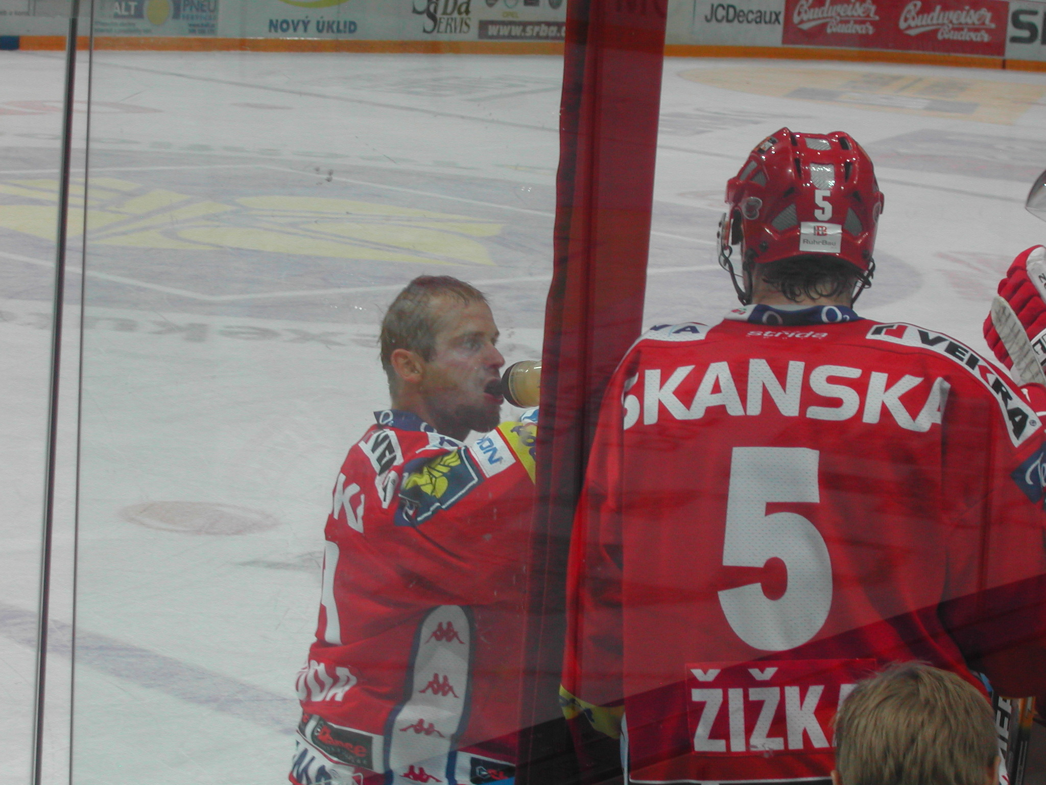 Adam Svoboda goalie of HC Slavia Praha during a game vs. HC České Budějovice